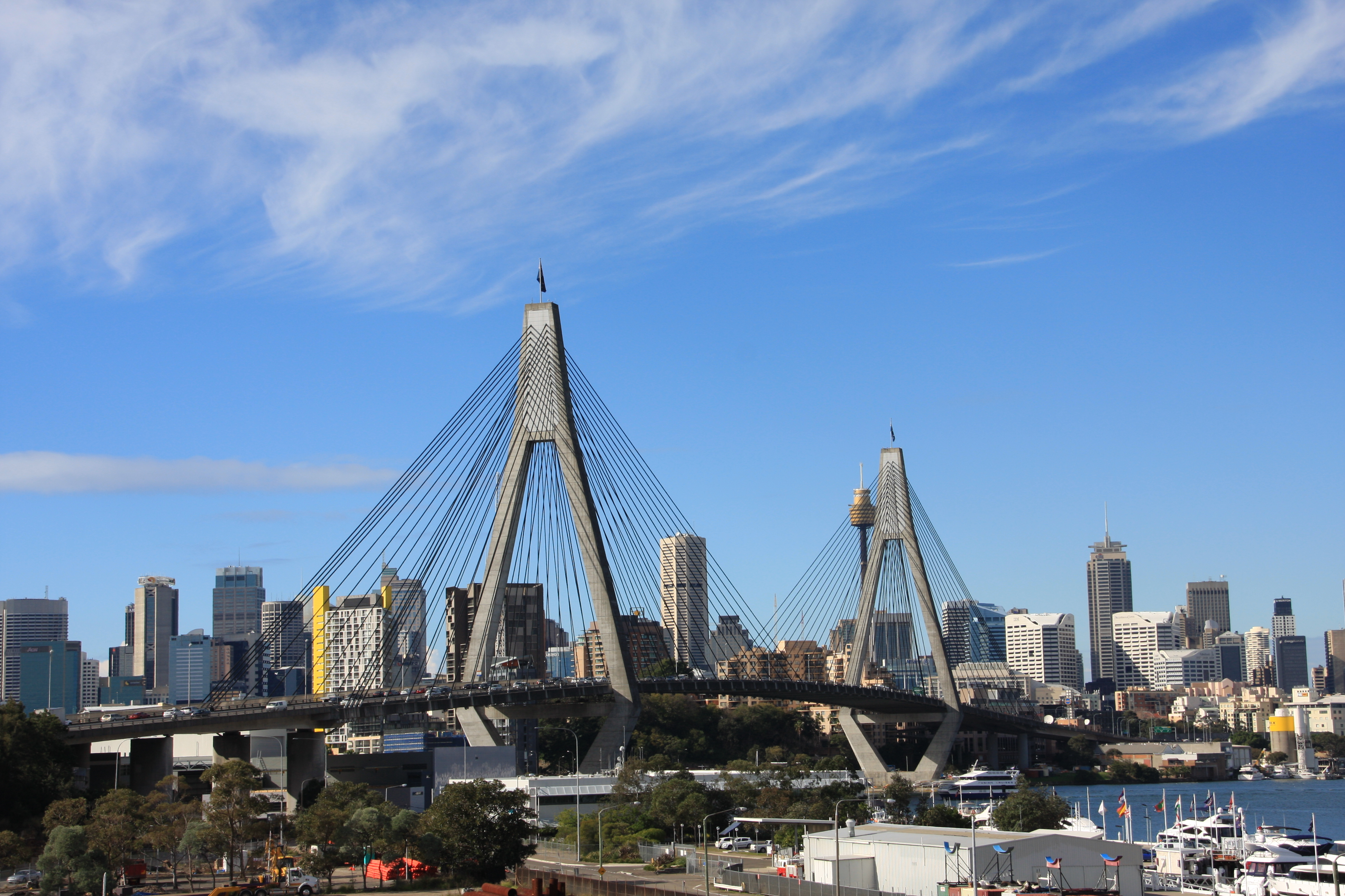 Anzac Bridge pylon cables from up close